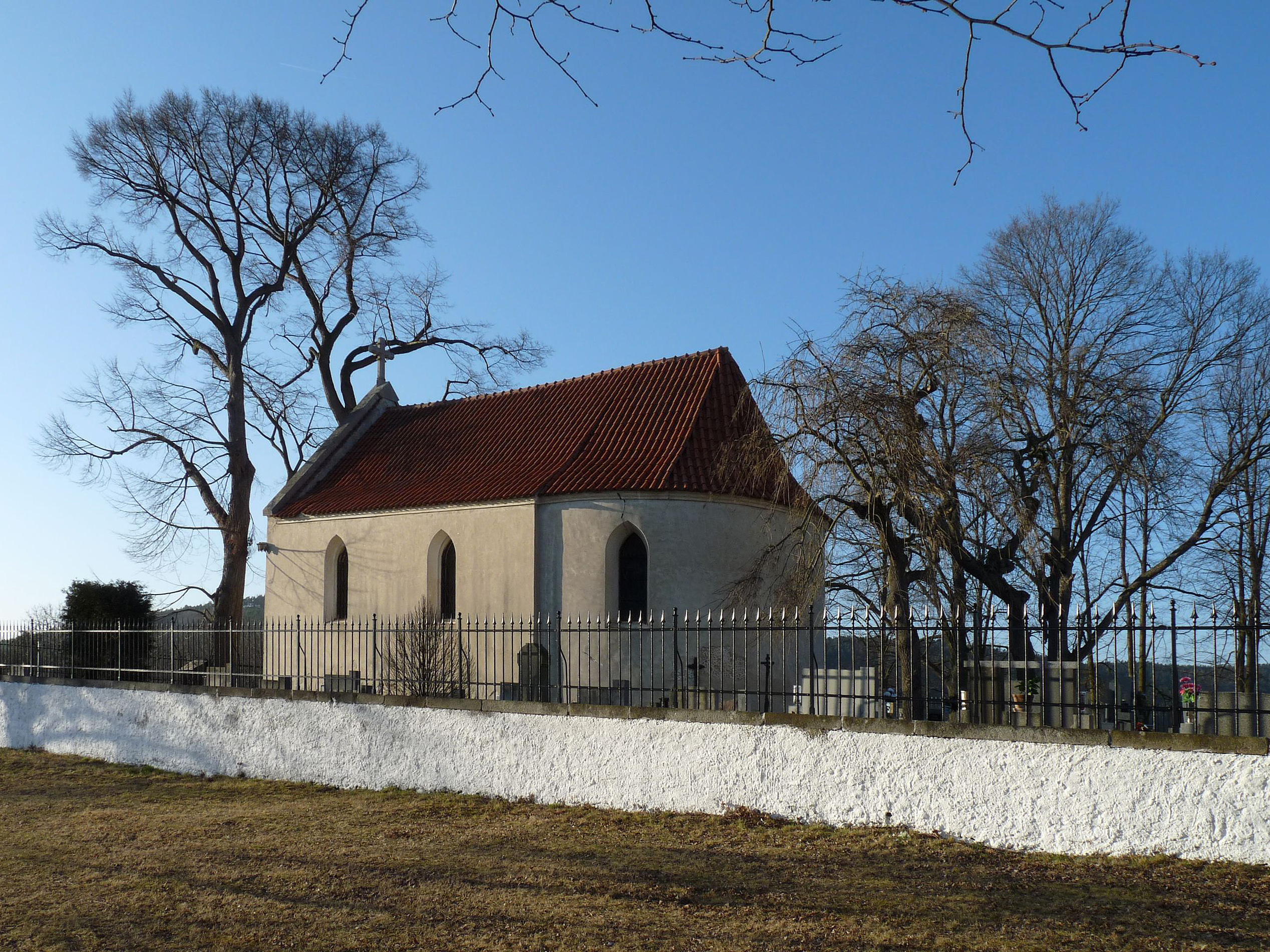 Saint Erazim Chapel in the municipality of Nezamyslice, Klatovy District, Plzeň Region, Czech Republic